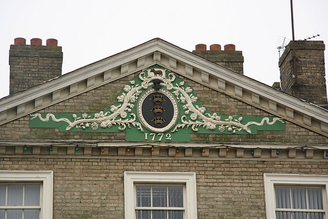 Boston Corporation Arms. The arms of the Boston Corporation and date of 1772 on the Exchange Building 1114020